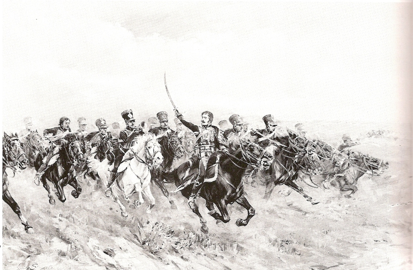 The general Lasalle and his cavalrymen charging at Wagram